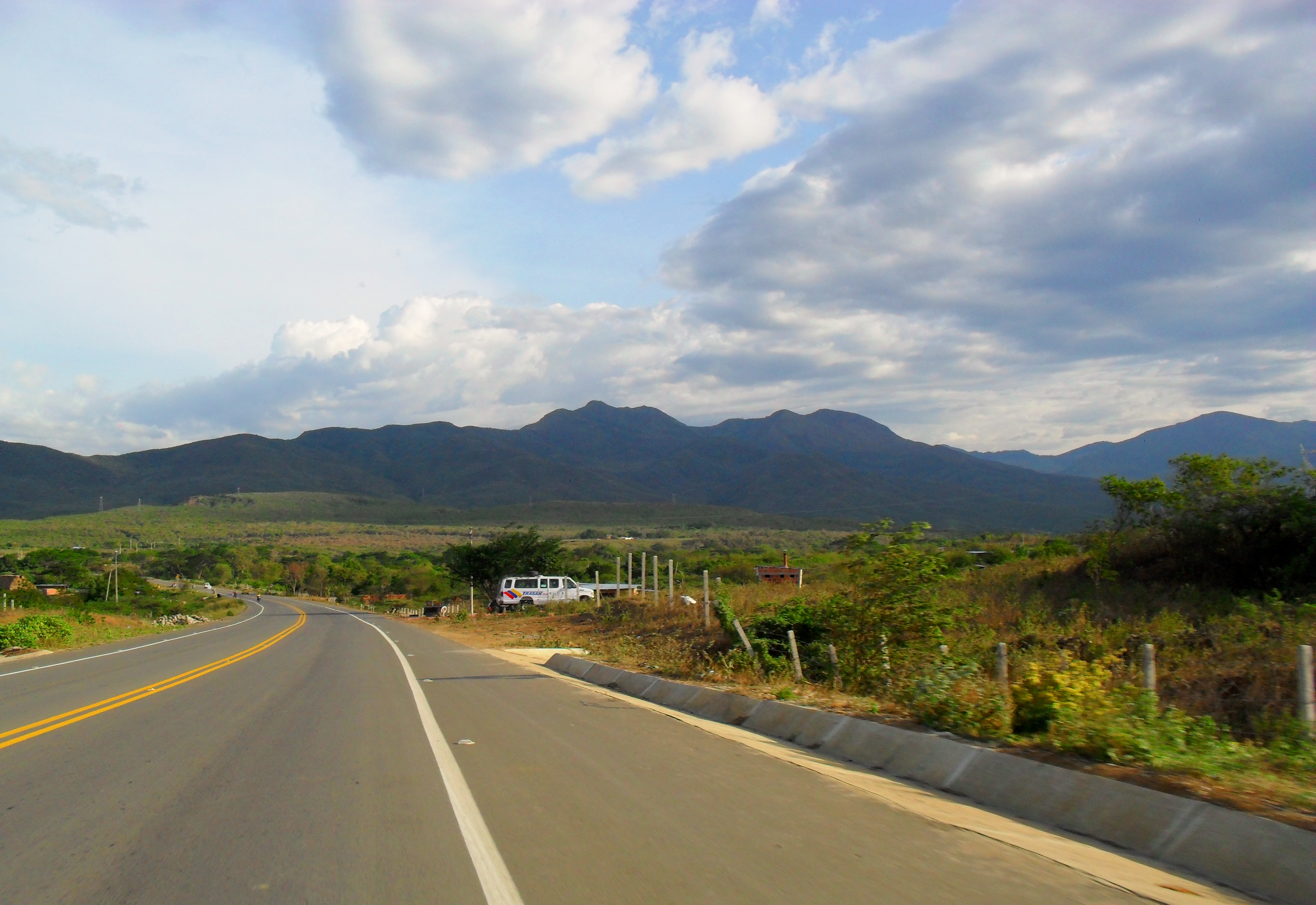 mountains from ring road southern city of Cúcuta-N.S.,Colombia.